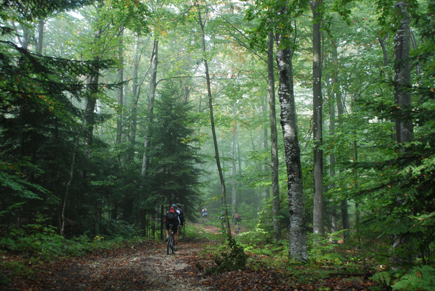 NETAKNUTA PRIRODA